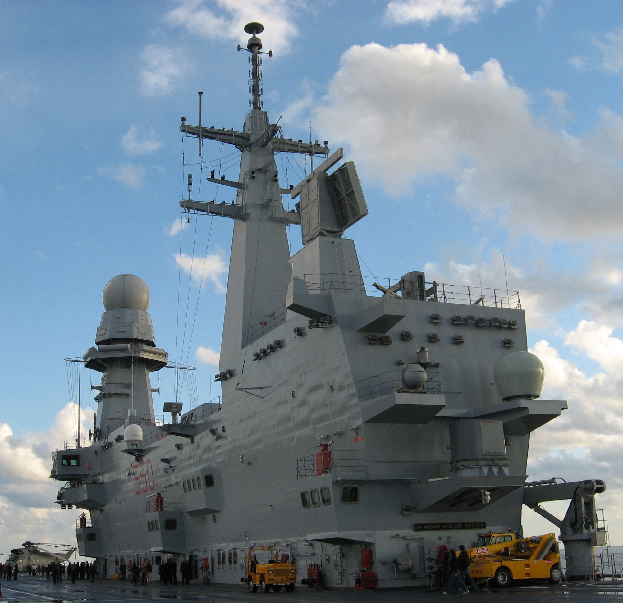 Lateral island structure of italian aircraft Cavour (550).